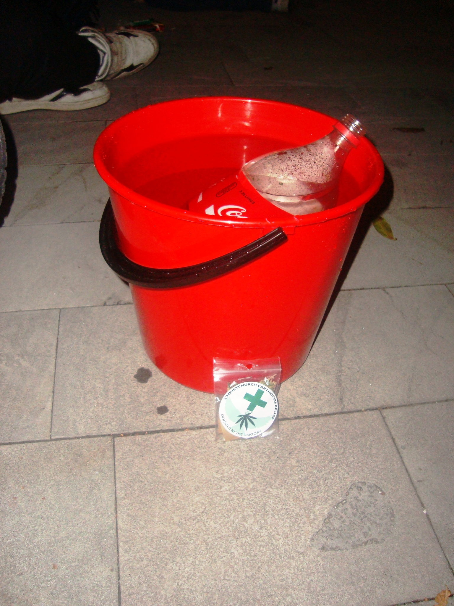 A Bucket bong outside the courthouse in Timaru, New Zealand donated to people of Christchurch, New Zealand by The Dakatory. Photo by Dakta Blaze